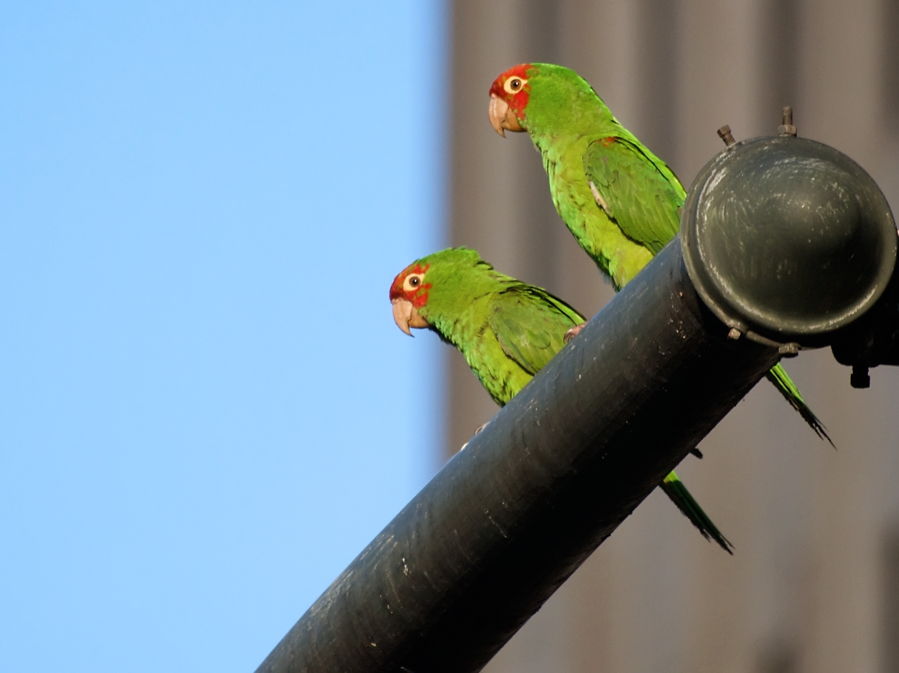 Red-masked Parakeet in the sun perching on traffic light in San Francisco, USA